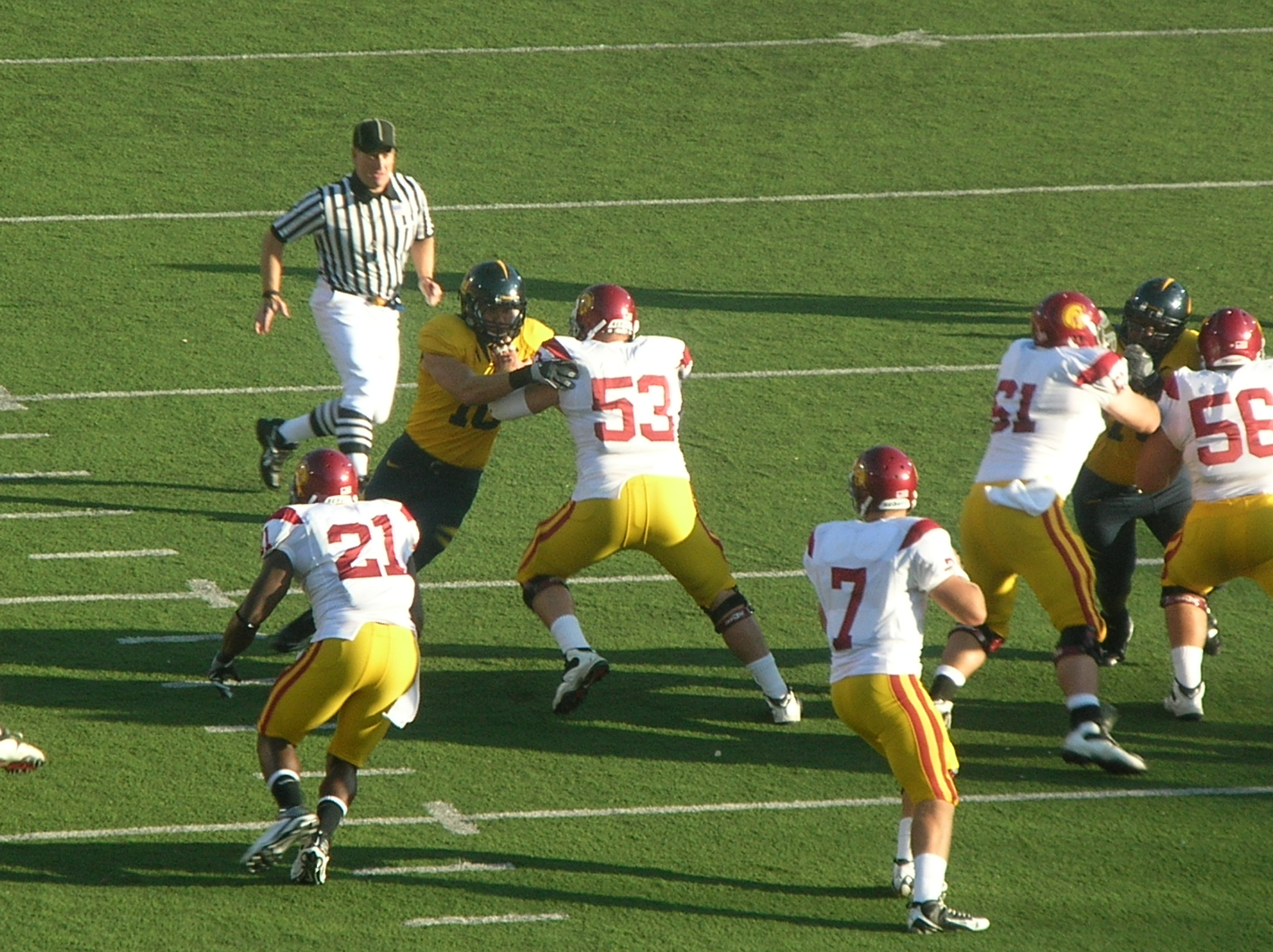 The USC Trojans on offense during a road game against the California Golden Bears. The Trojans won 30-3.